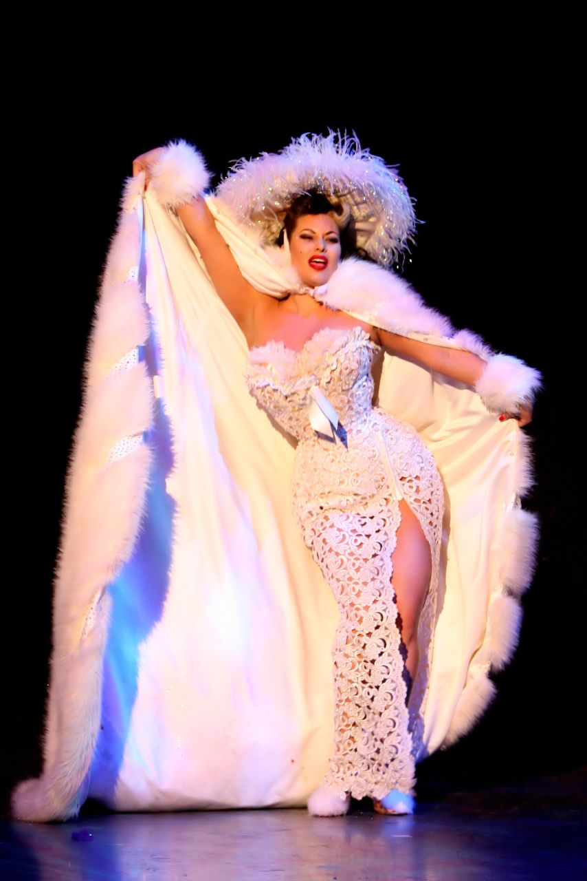 "Immodesty Blaize" "Miss Exotic World 2007"